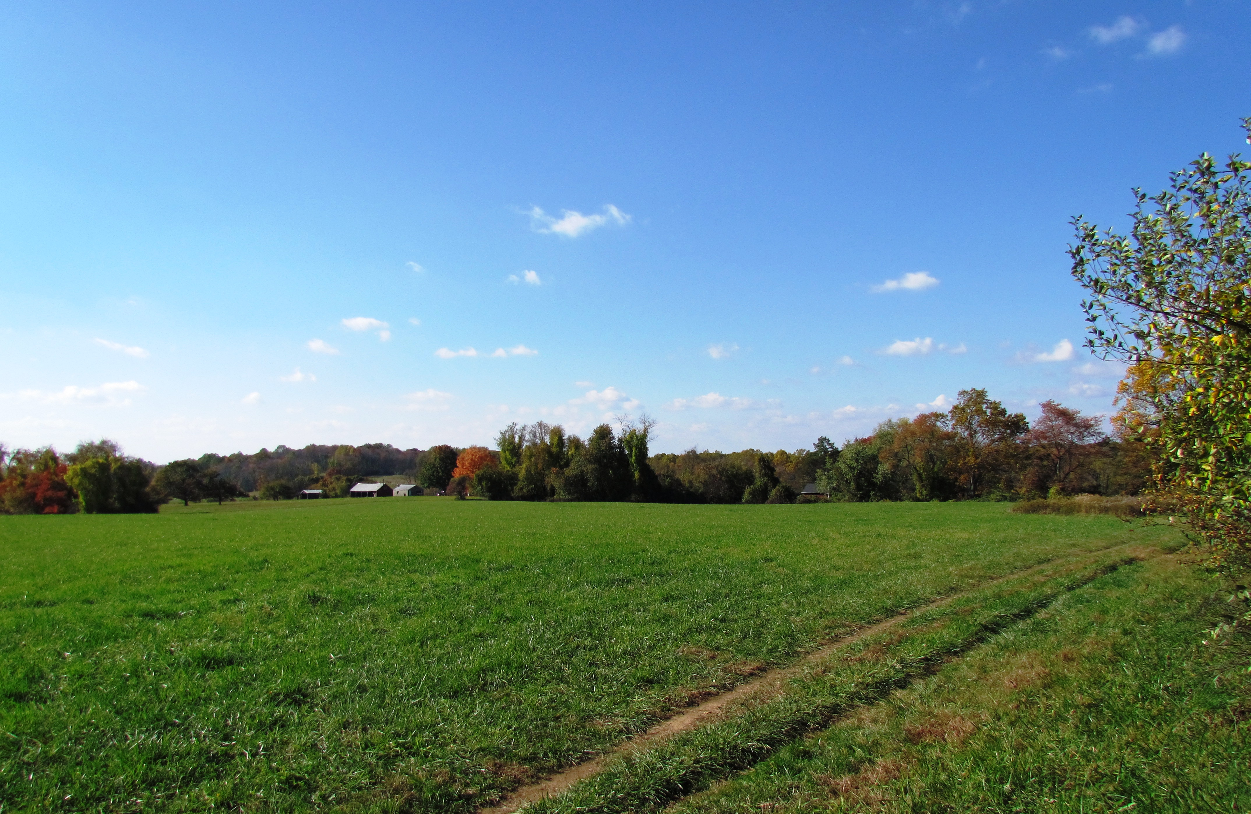 The expanses in Beaver Valley can take the breath away.